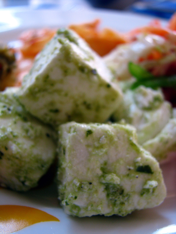 Was in Powai, Mumbai at Rodas where Rumni was doing a review for . I had a field day with the camera... A combination of Indian, Continental and Chinese food. Good restaurant